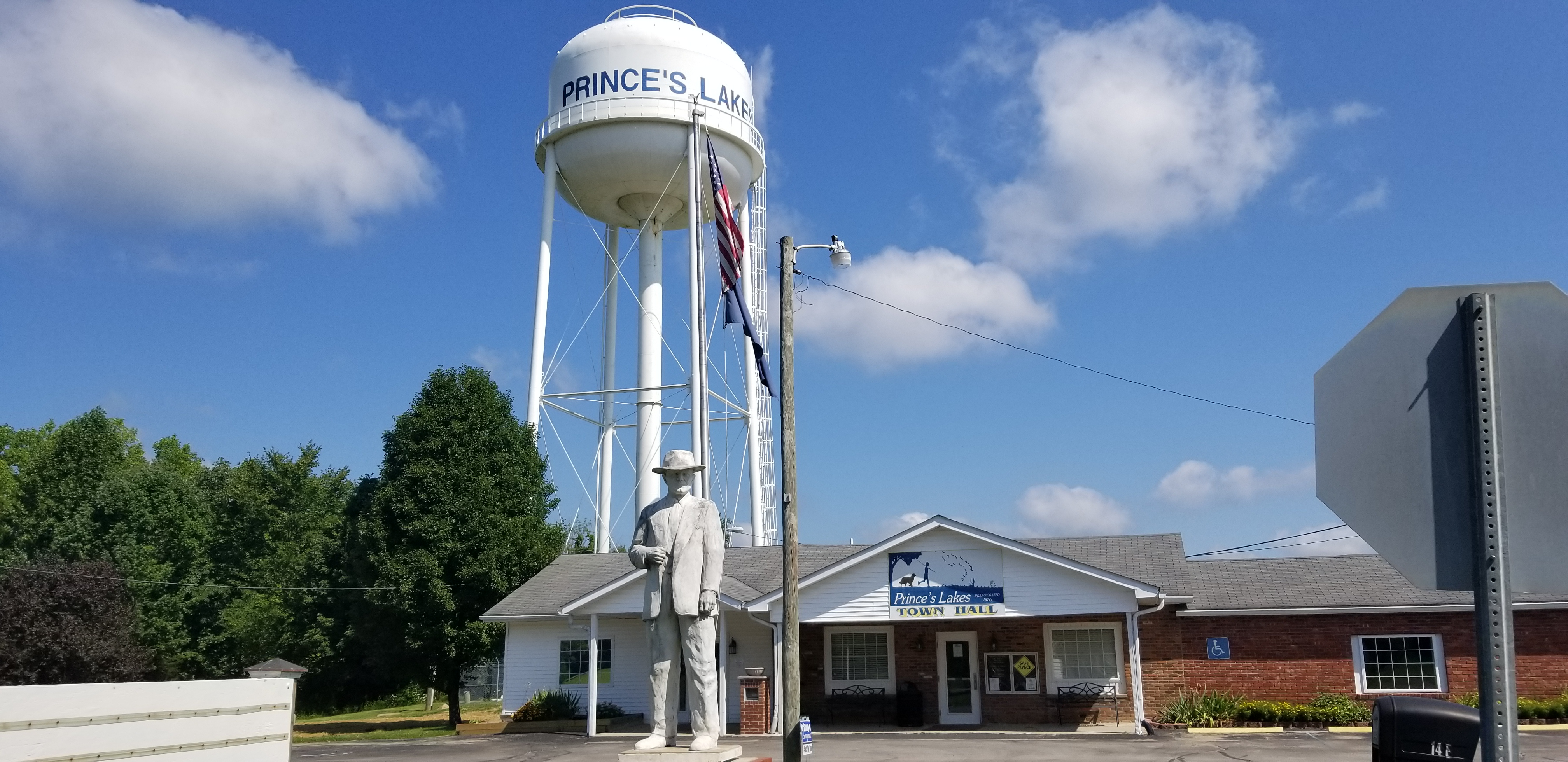 Princes Lakes, Indiana water tower and town hall